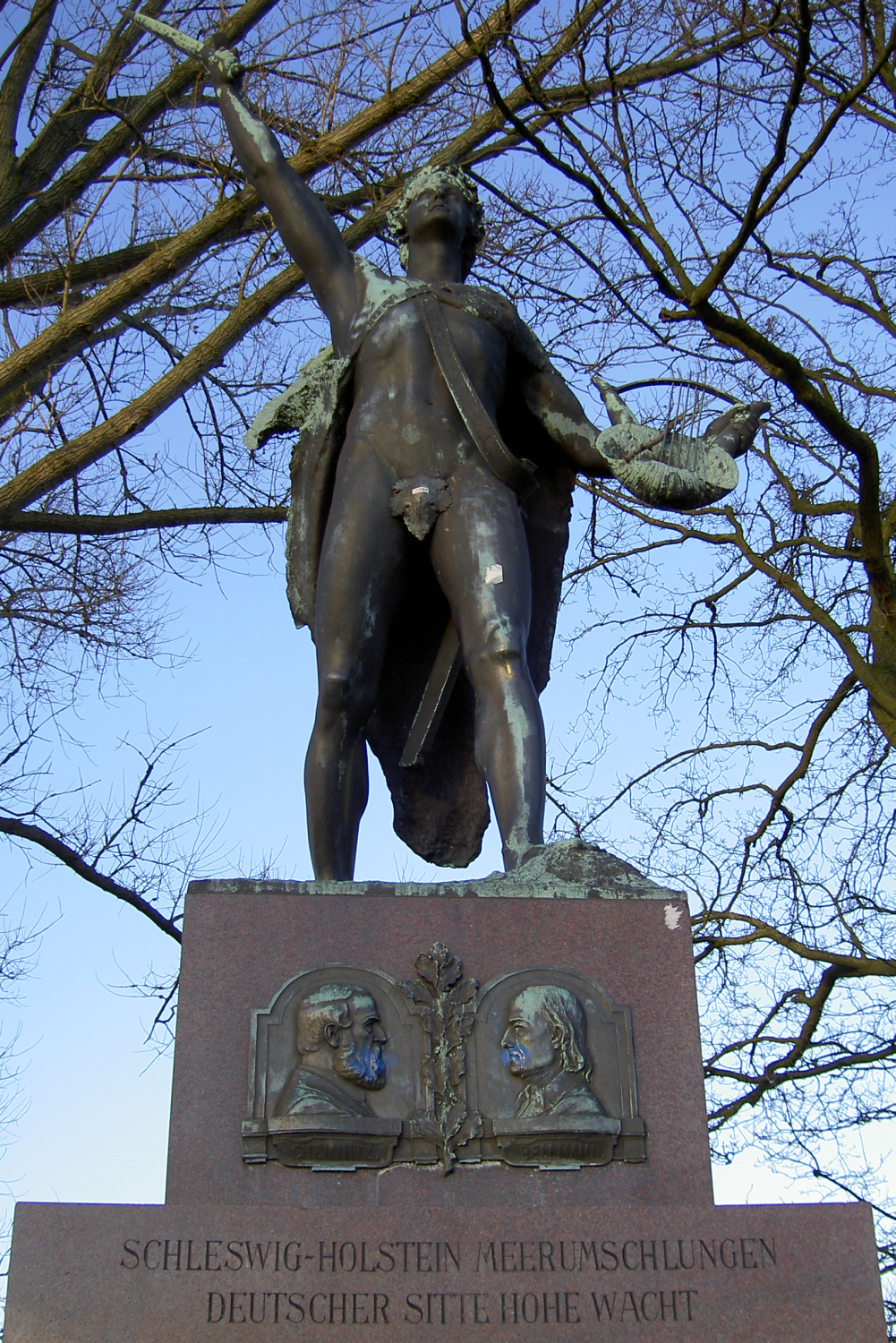 Memorial in Schleswig to honor Matthäus Friedrich Chemnitz and Carl Gottlieb Bellmann. They composed the anthem of Schleswig-Holstein Schleswig-Holstein meerumschlungen that was performed in this place on 24. july 1844 for the first time. The memorial was create by Paul Peterich.